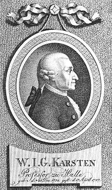 Portrait of Wenzeslaus Johann Gustav Karsten (1732-1787), German mathematician